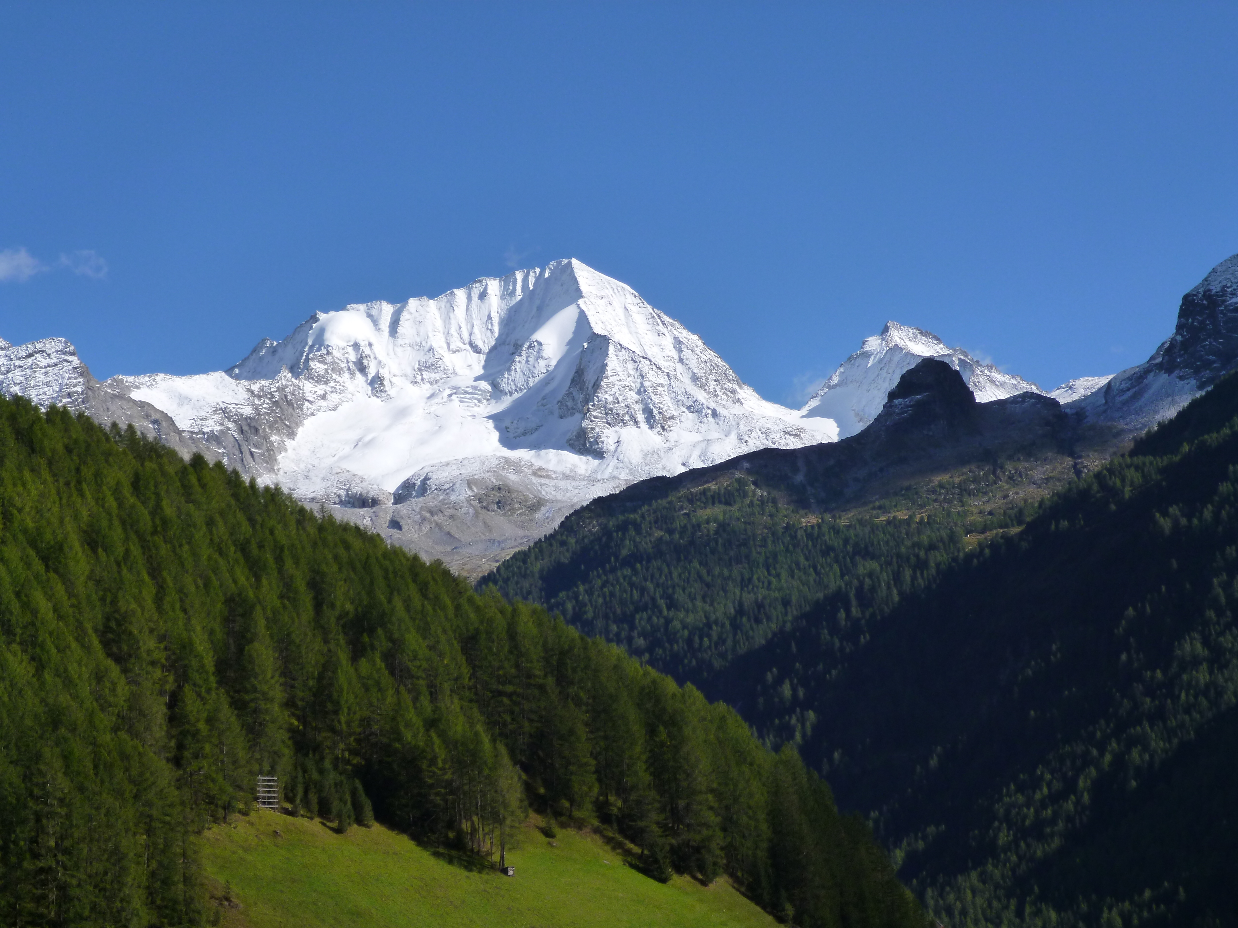 Hochgall from north, from Rein in Taufers